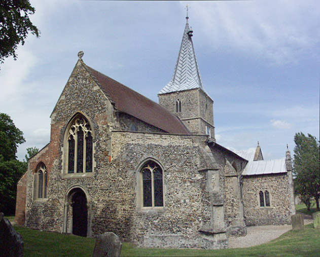 Church of England parish church of St Mary Magdalene, Ickleton, Cambridgeshire: view from the southwest